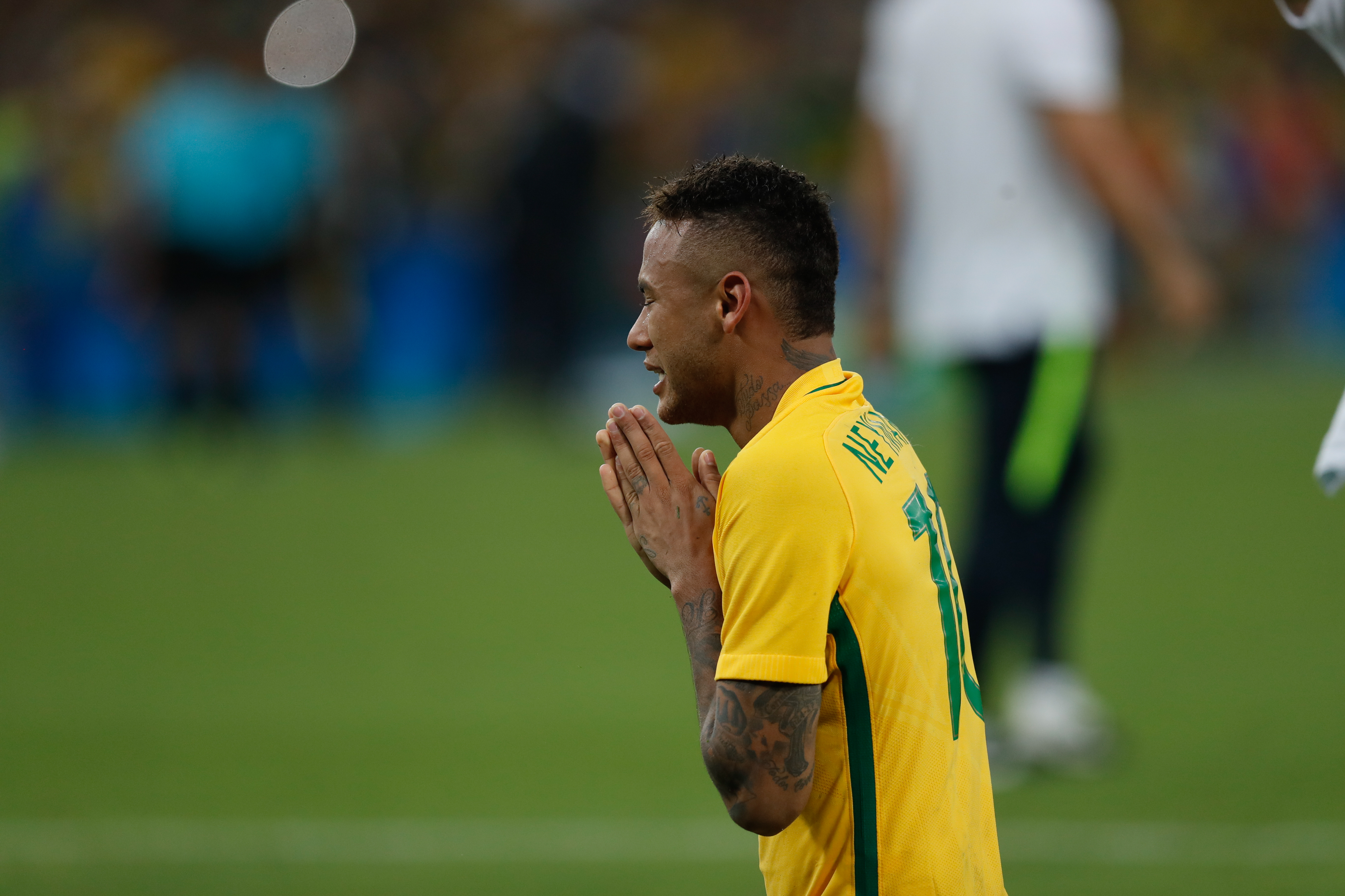 Rio de Janeiro - Brasil vence Alemanha e conquista primeiro ouro olímpico do futebol (Fernando Frazão/Agência Brasil)